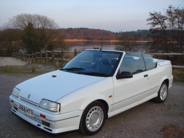 Renault 19 16V Cabriolet Phase 1